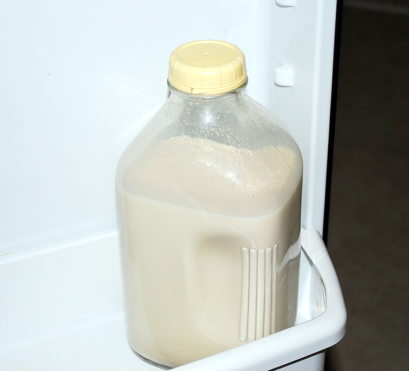 Raw Almond Milk. Brightened version of the old photo.